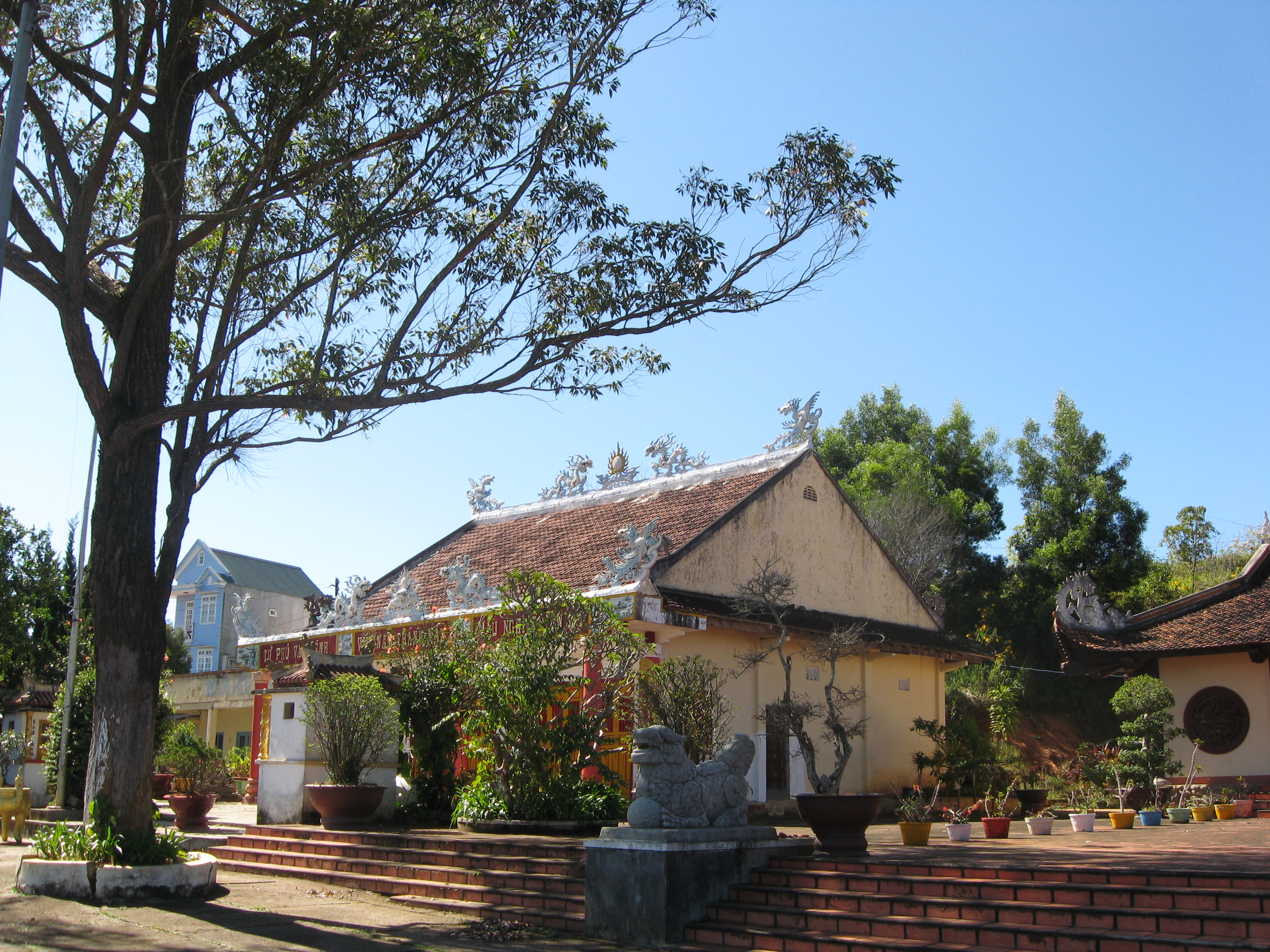 Thanh Mau Temple, Ngo Quyen street, Da Lat